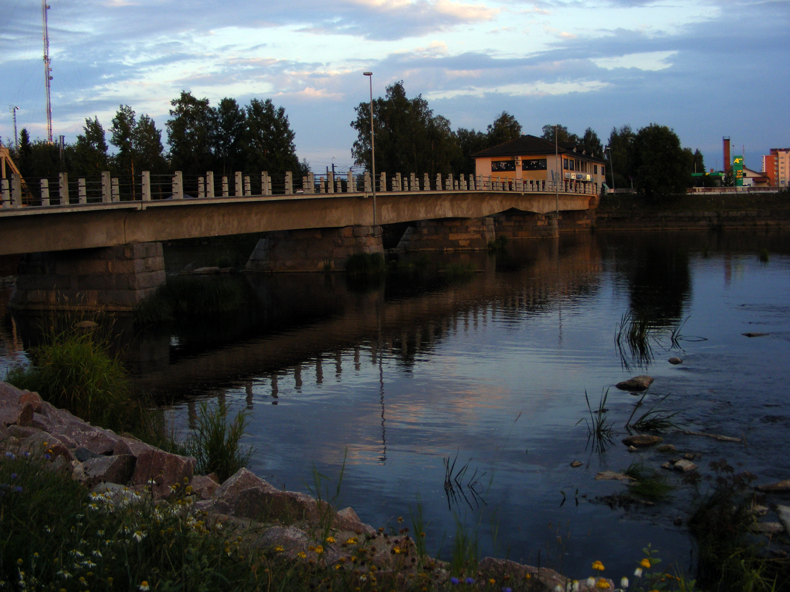 The Savisilta bridge over the river Kalajoki in Ylivieska, Finland